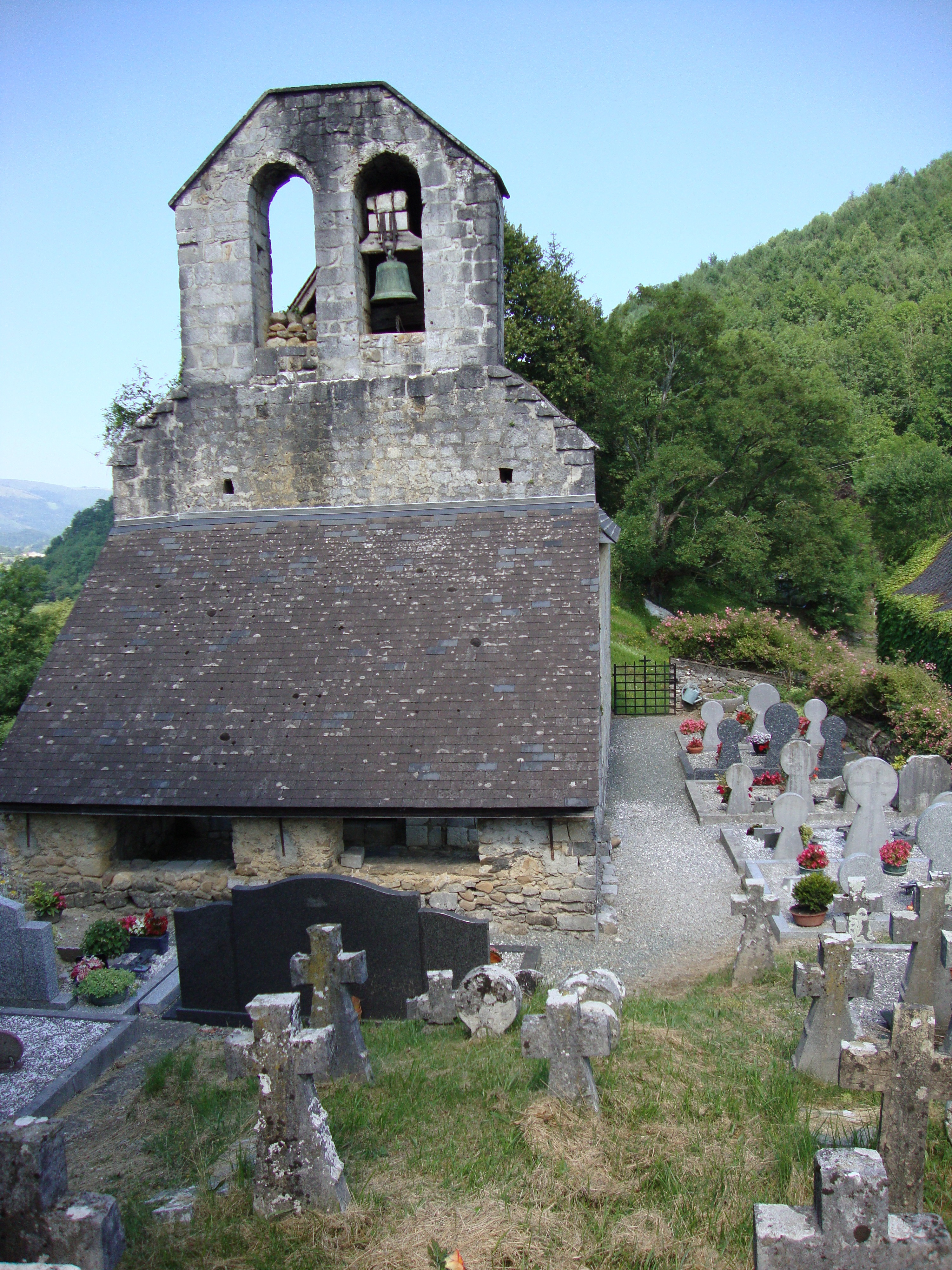 Arhan (Lacarry e.a., Pyr-Atl, Fr) church with bell gable (not trinitairian)